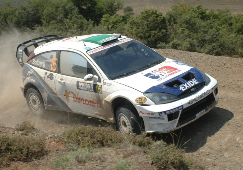 Henning Solberg driving a Ford Focus WRC at the 2005 Acropolis Rally.